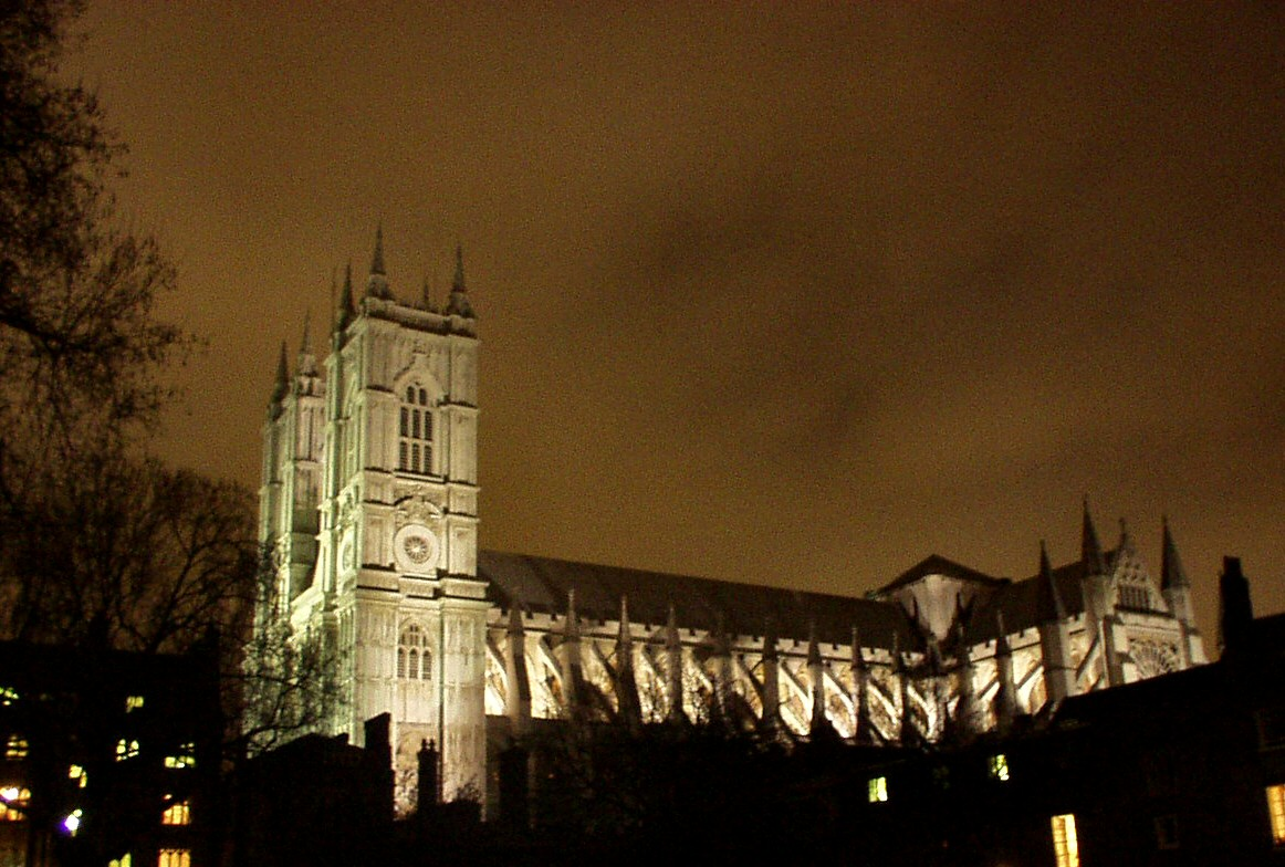 Westminster Abbey at night, viewed from Dean's Yard Date: 24th January 2003 17:38 8 ISO: 200 Photograph: ed g2s • talk